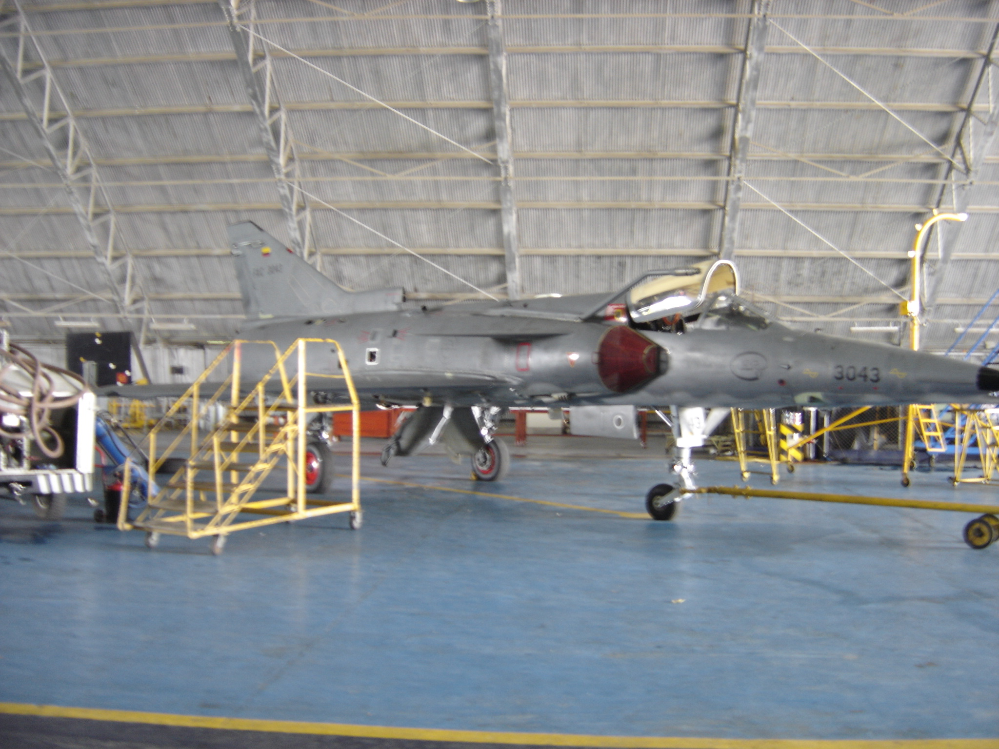 KFIR FAC3034